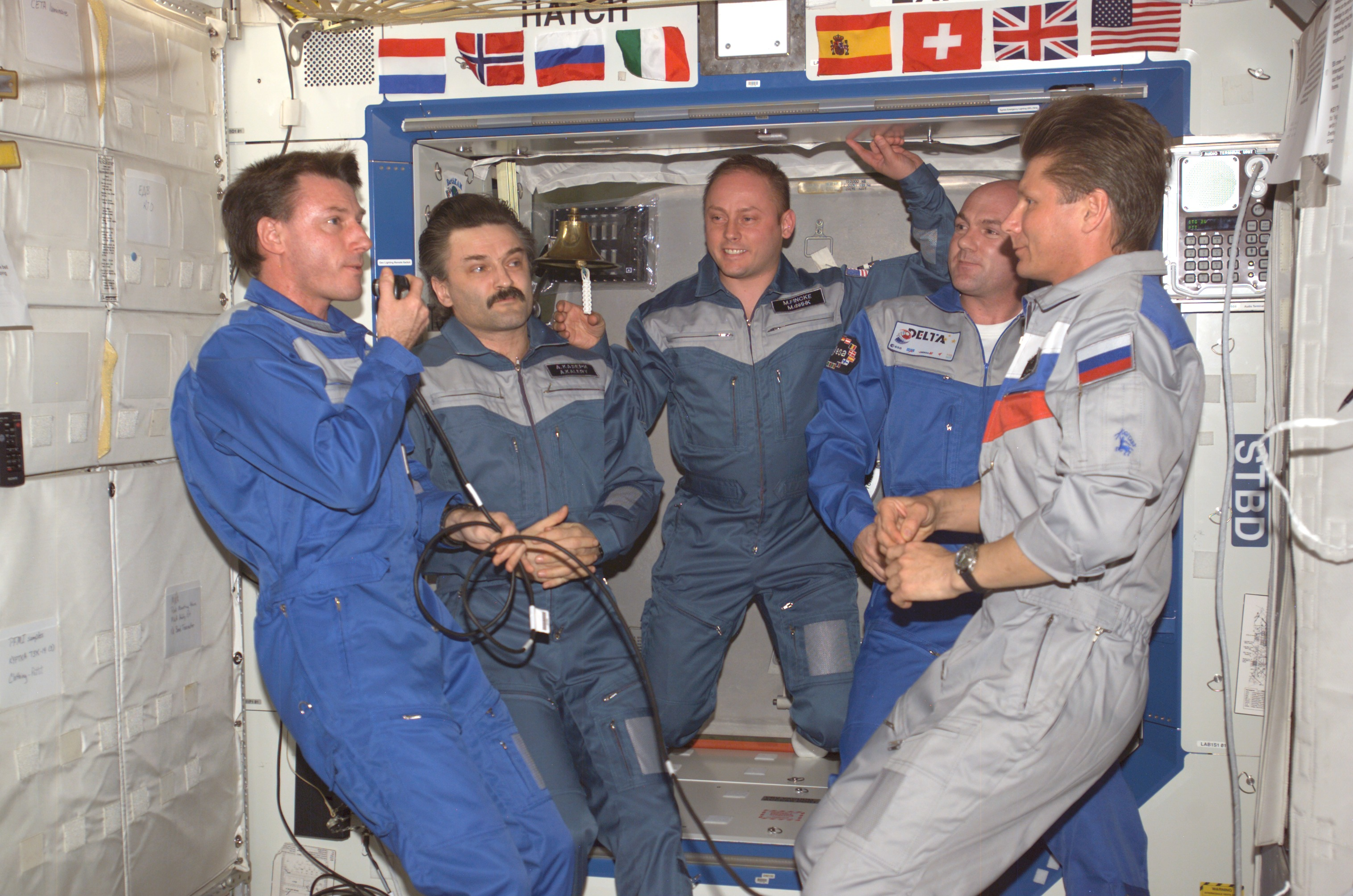 The crewmembers onboard the International Space Station (ISS) gather in the Destiny laboratory for the ceremony of Changing-of Command from Expedition 8 to Expedition 9. From the left are astronaut C. Michael Foale, Expedition 8 commander and NASA ISS science officer; cosmonaut Alexander Y. Kaleri, Expedition 8 flight engineer; astronaut Edward M. (Mike) Fincke, Expedition 9 NASA ISS science officer and flight engineer; European Space Agency (ESA) astronaut Andre Kuipers of the Netherlands; and cosmonaut Gennady I. Padalka, Expedition 9 commander. Kaleri and Padalka represent Russia's Federal Space Agency.